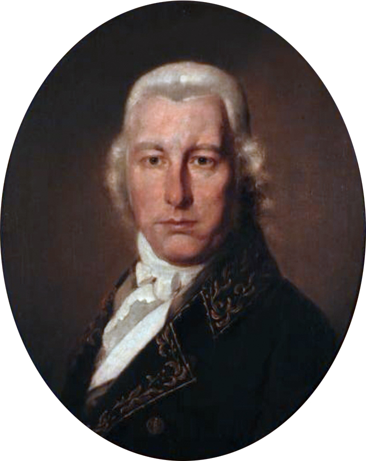 Portrait of Dirk van Hogendorp. Part of a series that also includes the portrait of Augusta Eleonora Carolina of Hohenlohe Langenburg and the portrait of Magdalena Adriana van Haren, princess of Hohenlohe Langenburg.